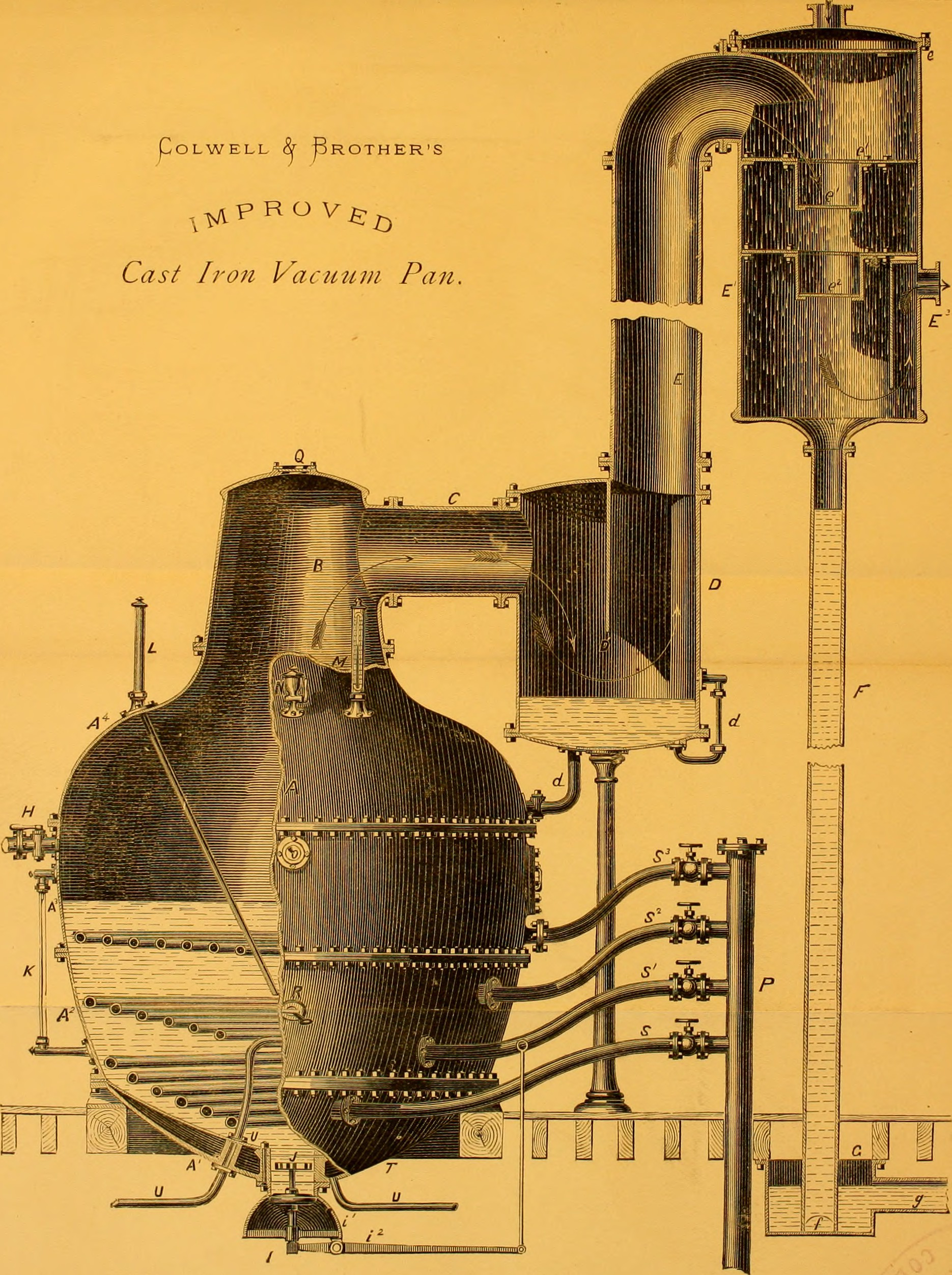 Title: Annual report of the American Dairymen's Association Year: 1865 (1860s) Authors: American Dairymen's Association Subjects: Dairying Publisher: [S. l. : The Association]